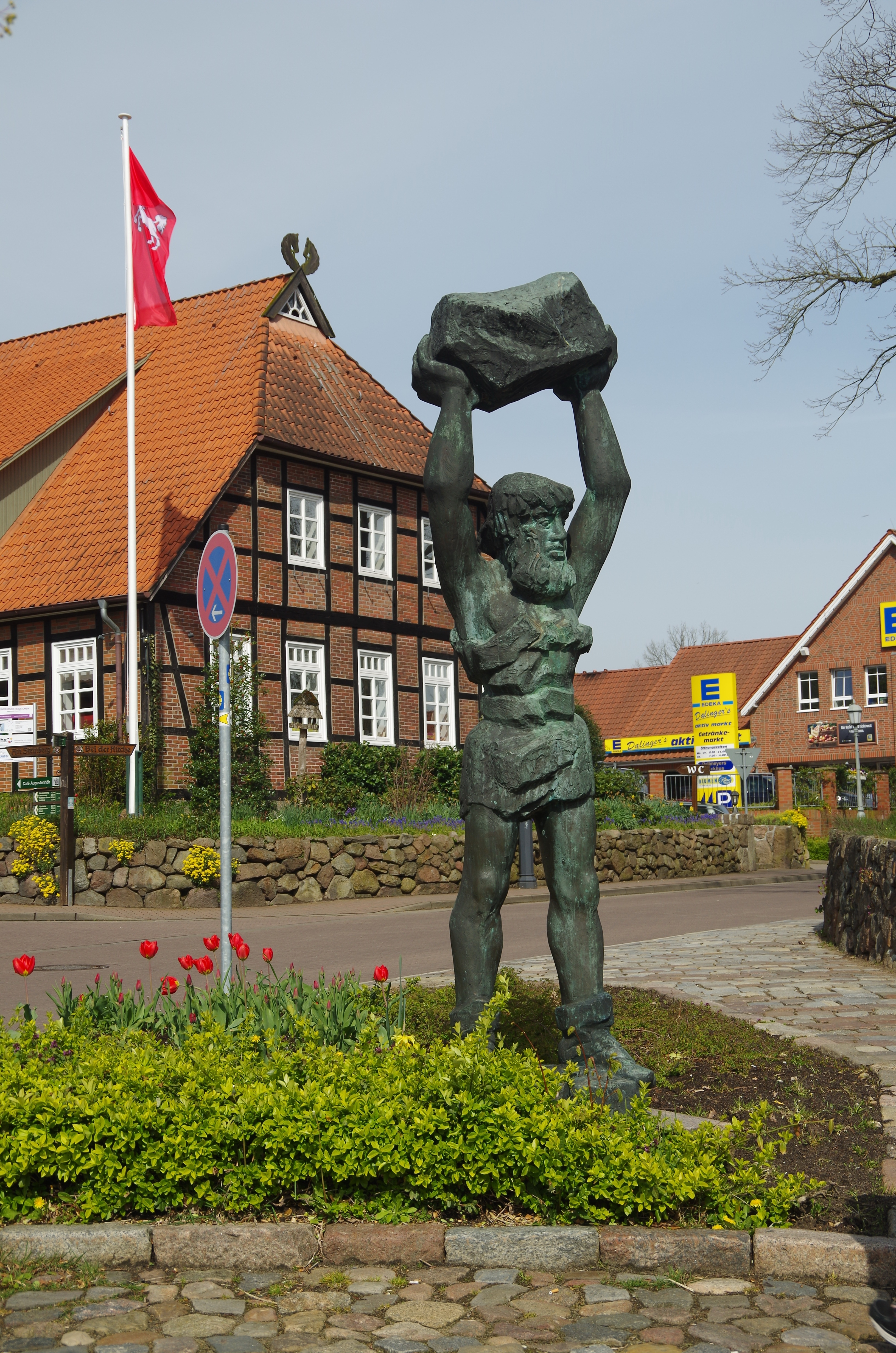 Hanstedt Nordheide, der Riese Bruns